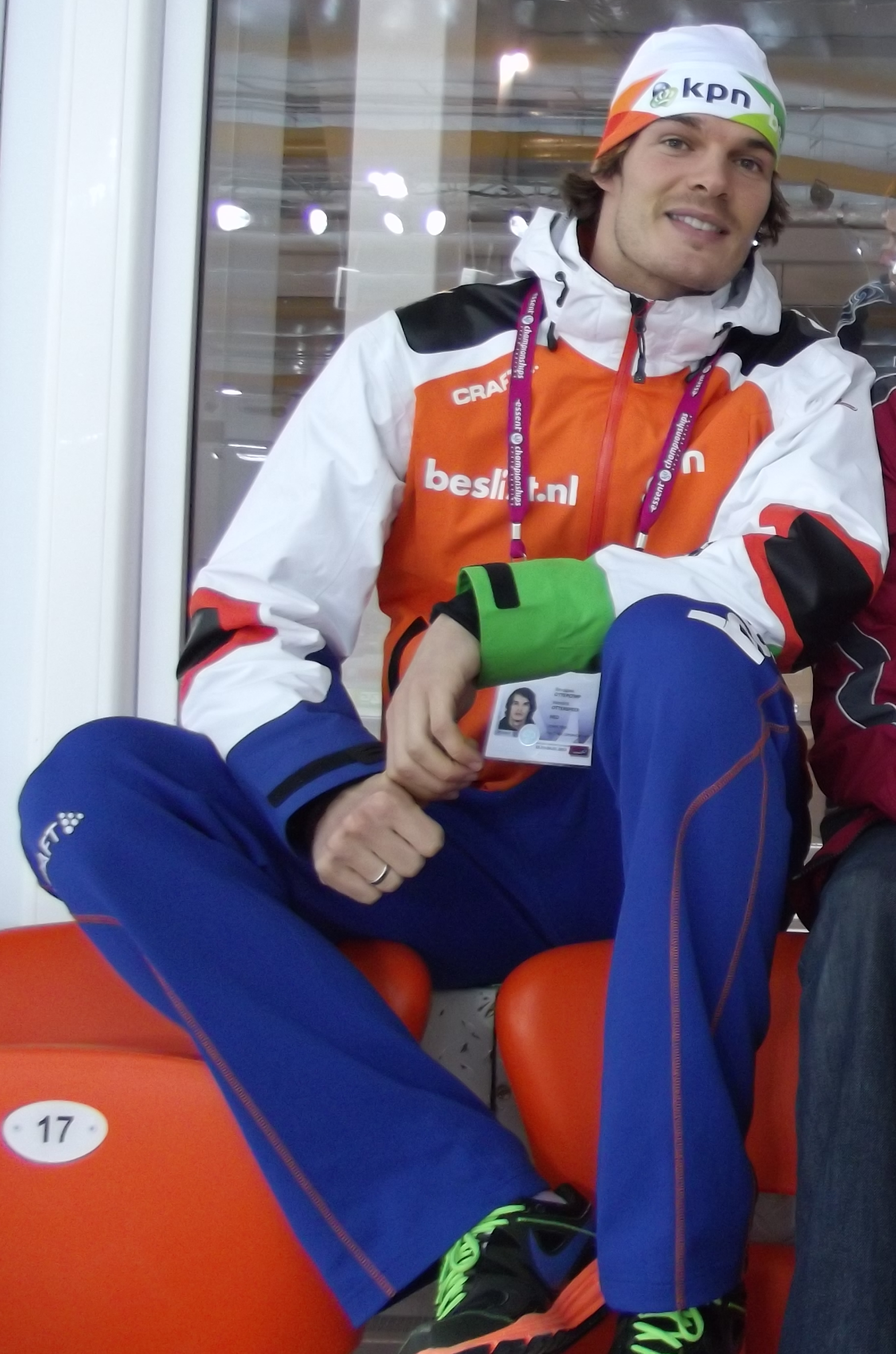 2013 World Single Distance Speed Skating Championships